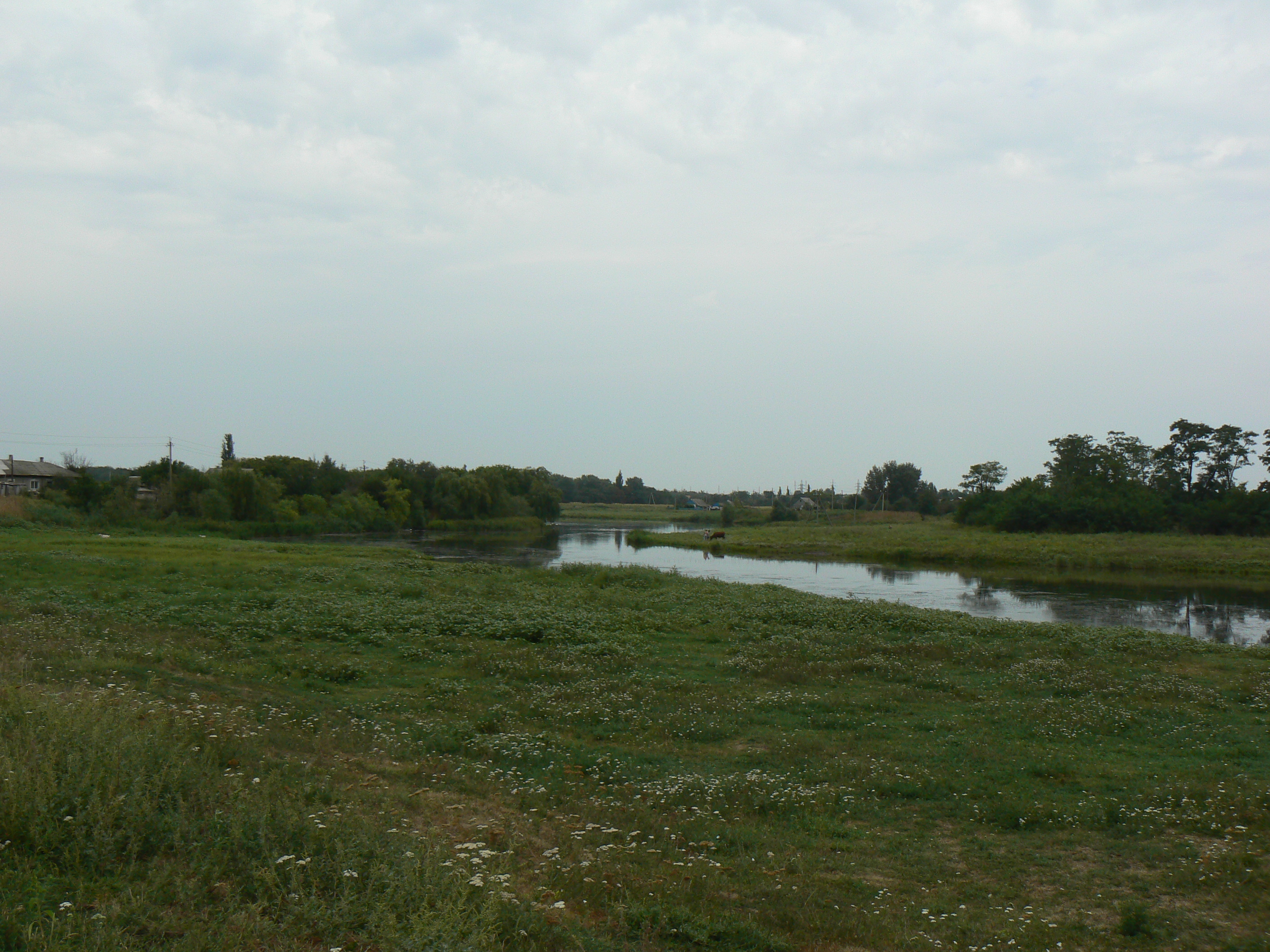 Mokriye Yaly river at Staromlinovka vilage